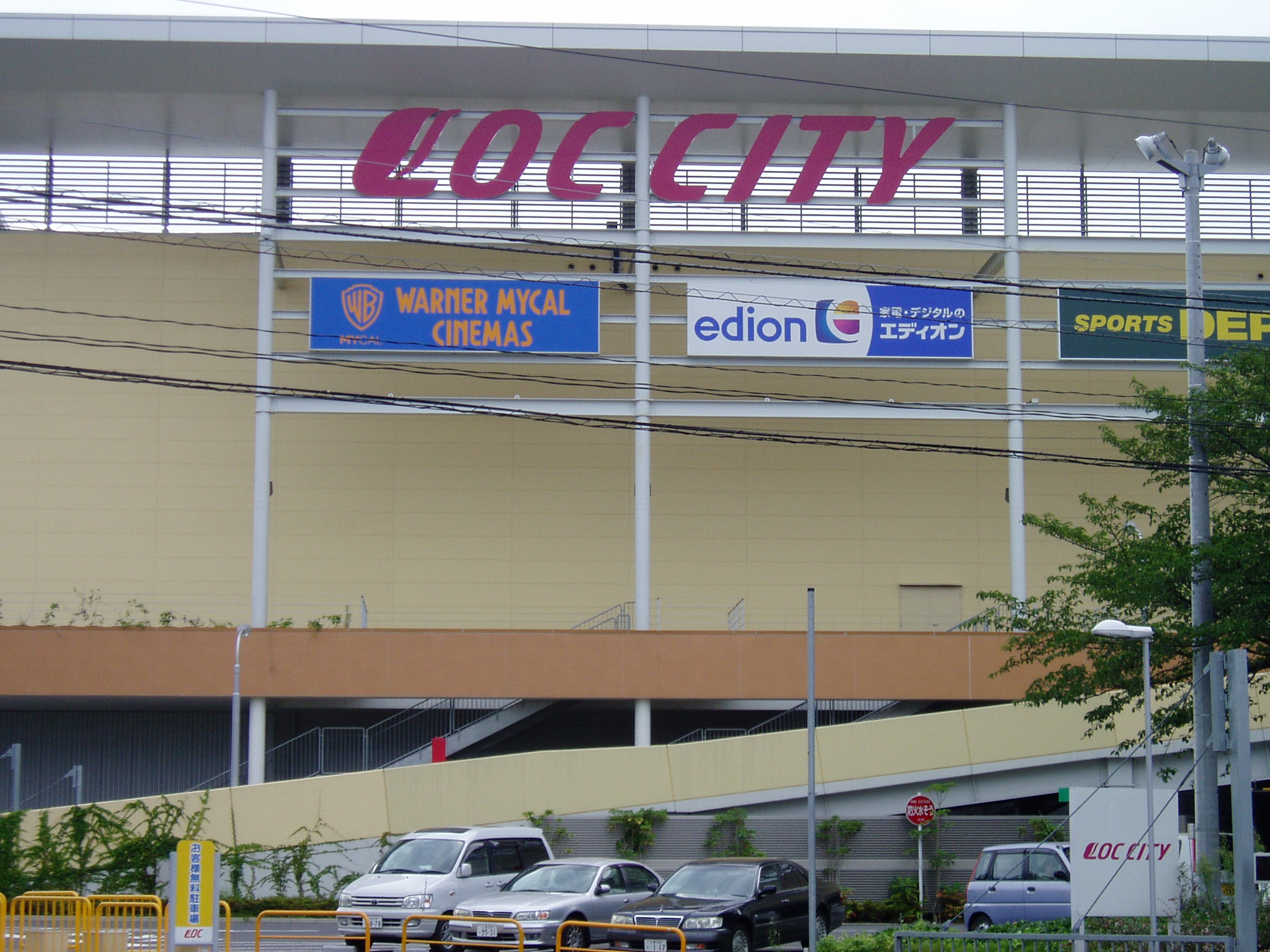 LOC CITY Moriya Shopping Center in Moriya City, Ibaraki Prefecture